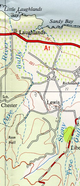 An extract from UK Directorate of Overseas Surveys 1:50,000 map of Jamaica sheet F 1958 showing the course of Cave Gully. A derivative work of File:DoOS 1 to 50000 Map of Jamaica Sheet F (St Ann's Bay - Moneague) 1958.jpg